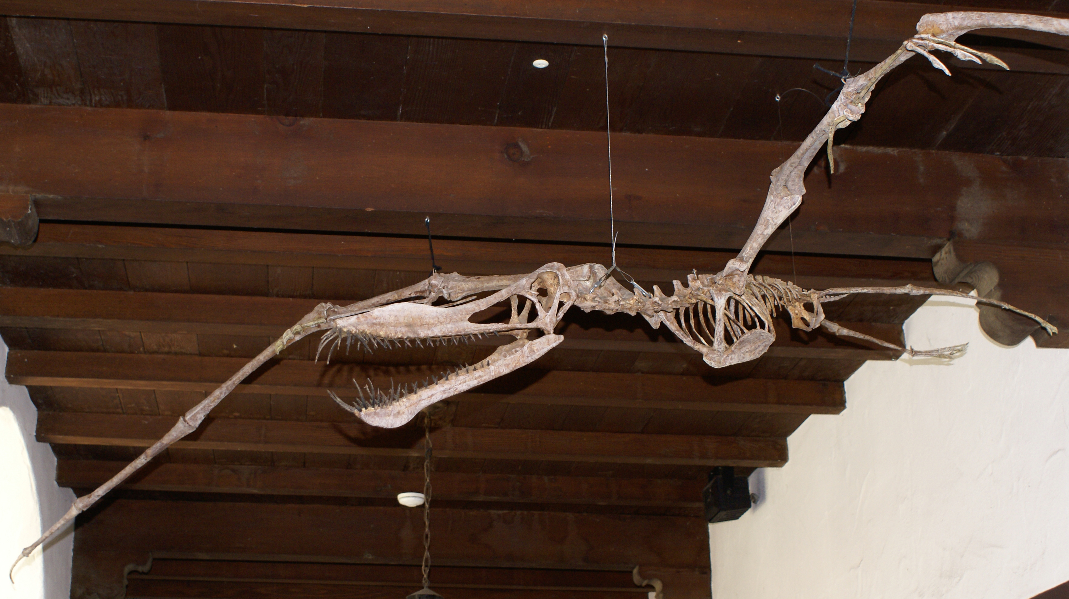 Fish-eater with 16-foot wingspan; yet undescribed African pterosaur[1] (perhaps one mentioned in "Blackburn, D. Two Early Cretaceous pterosaurs from. Africa. J. Vert. Paleontol. 22, 37A (2002)."), replica based on Anhanguera/Coloborynchus piscator Age: 110 million years old Origin: Niger